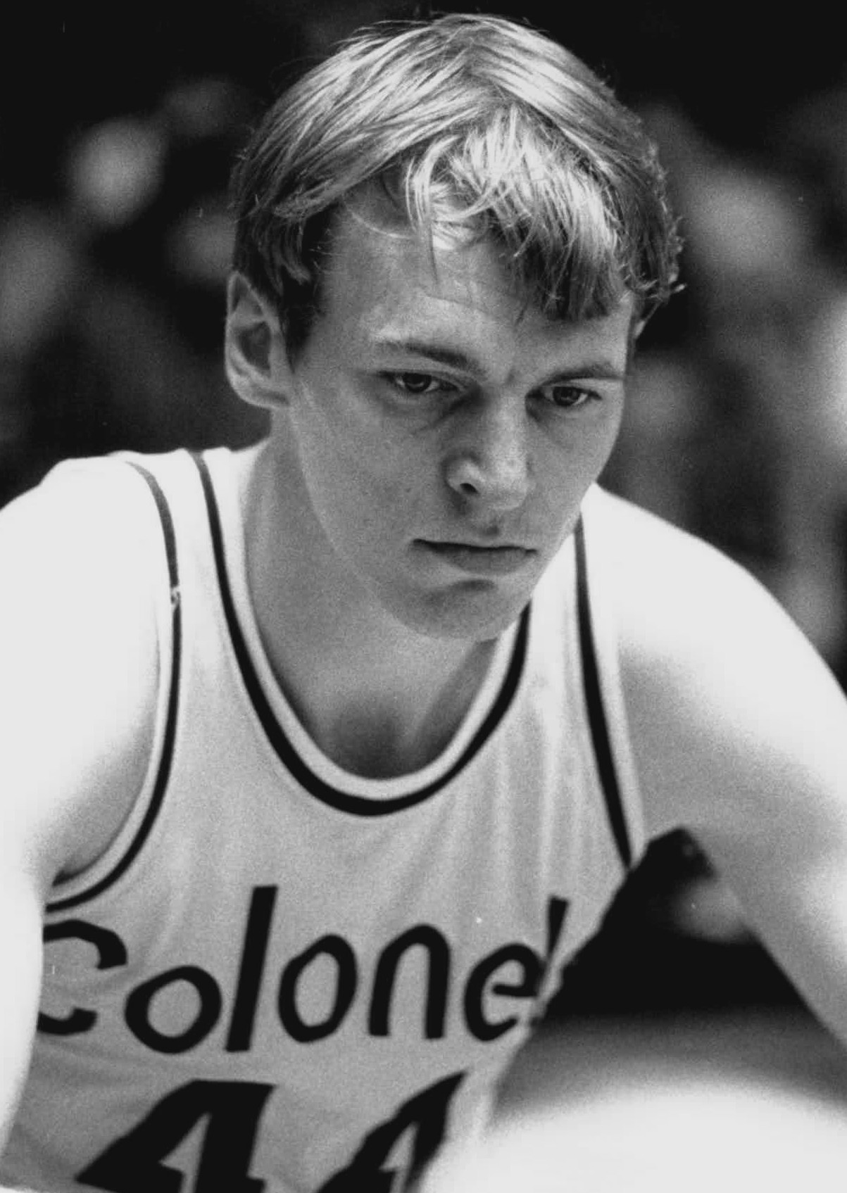 Professional basketball player Dan Issel